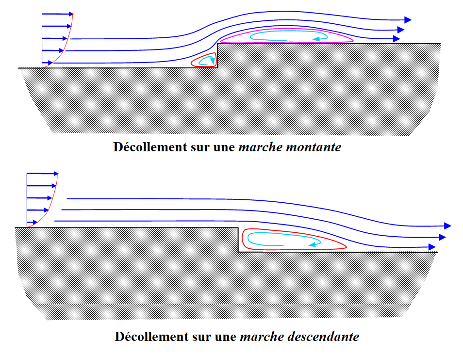 Detachment on forward facing or rearward facing steps, with formation of dead water zones. Note that the steps are more or less embedded in the thickness of the boundary layer.